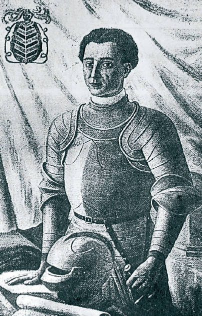 Angelo Tartaglia, medieval condottiero